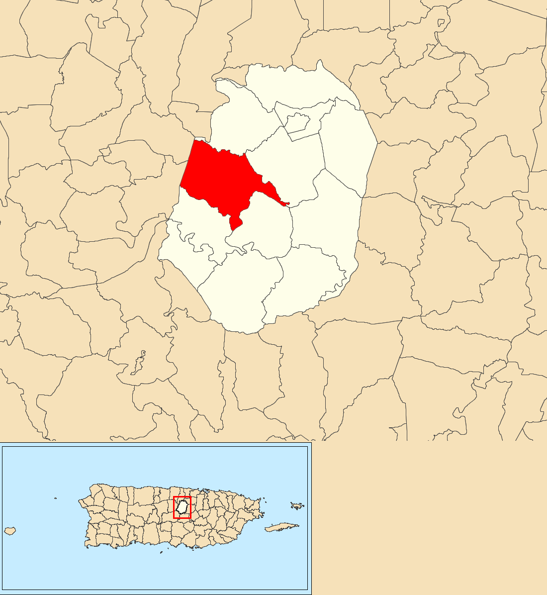 Padilla, Corozal, Puerto Rico locator map